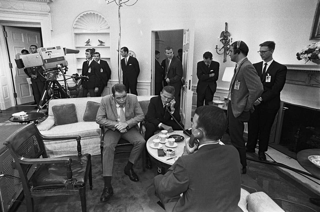 The phone call from the Oval Office to Apollo 11 was routed to NASA Mission Control in Houston where it was transmitted, via various Manned Space Flight Network and Deep Space Network antennas around Earth, as a radio signal